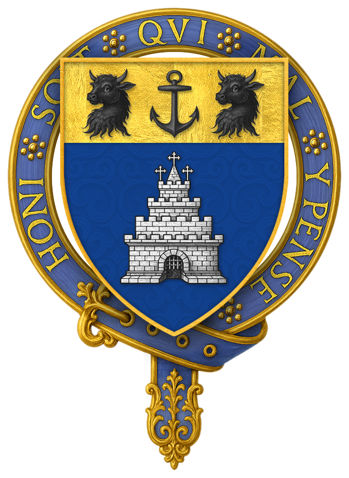 Coat of Arms of Sir Gerald Templer, KG, as displayed on his Order of the Garter stall plate in St. George's Chapel, Windsor Castle.